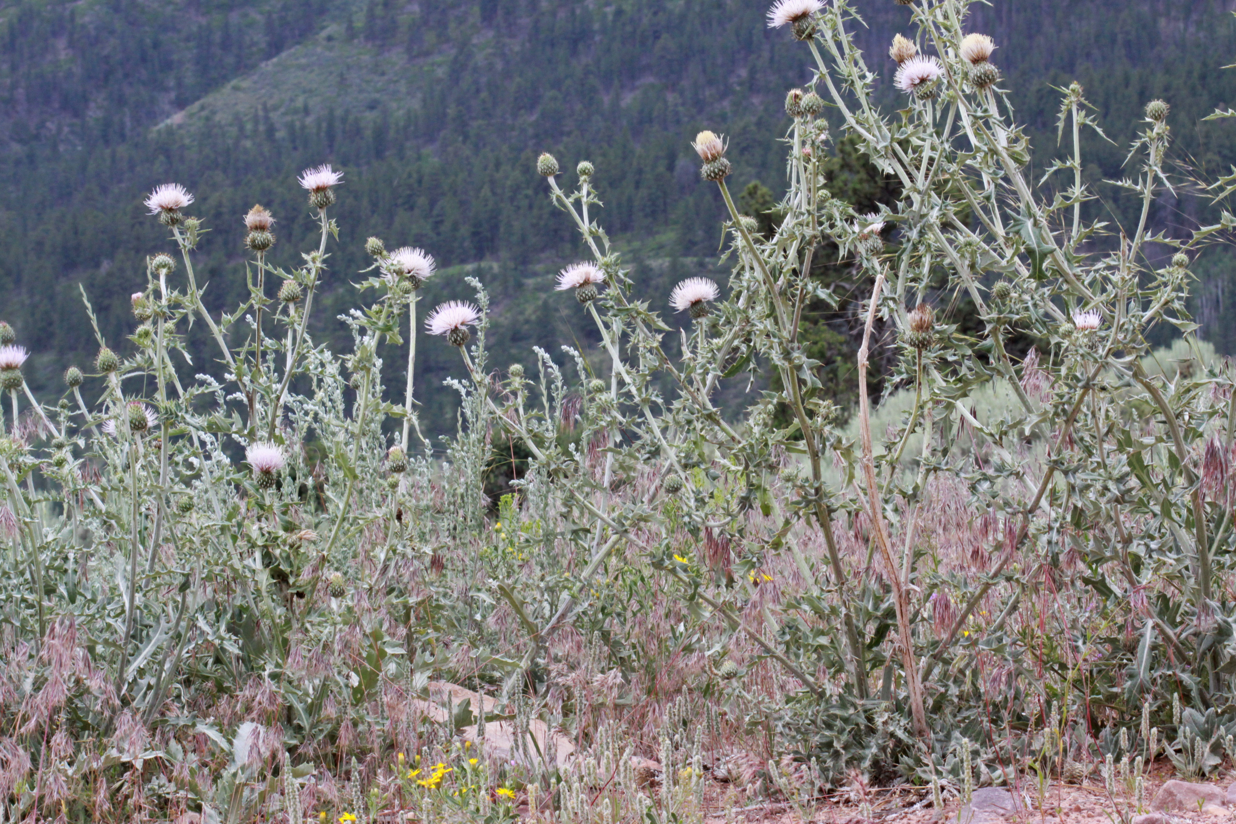 Wavyleaf thistle (Cirsium undulatum), Aster family (Asteraceae). Slopes of the Uinta Canyon along the road FR117 to the Chepeta Lake, Uintah, Utah; elevation 2347 m (7700 ft). Cirsium undulatum looks the most close fit, although the leaf pattern and the branching character is different from ones I see around Salt Lake City.